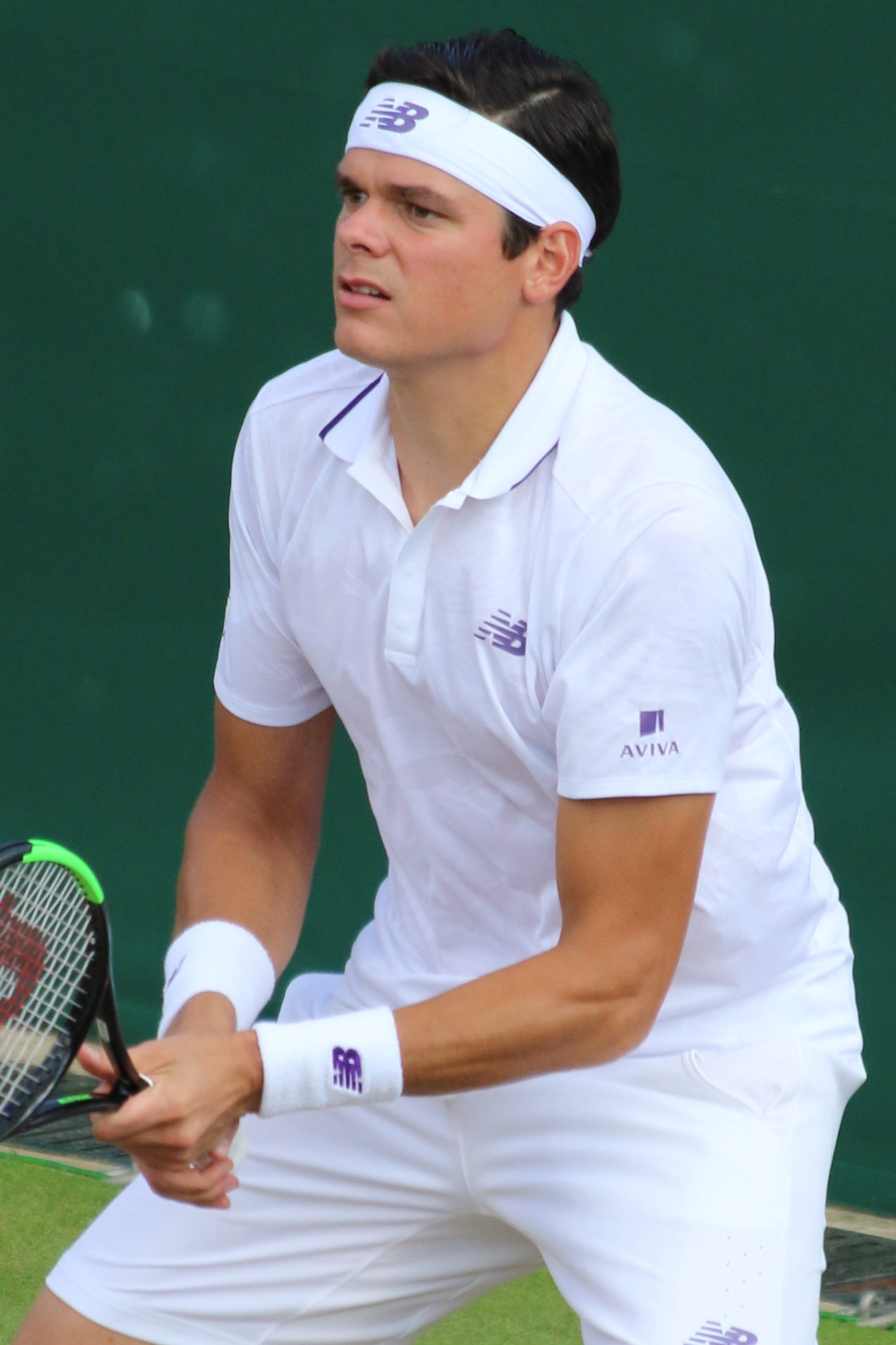 Raonic WM17 (54)